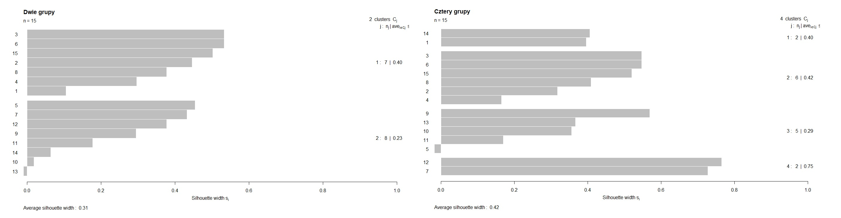 Silhouette average width with 2 and 4 clusters